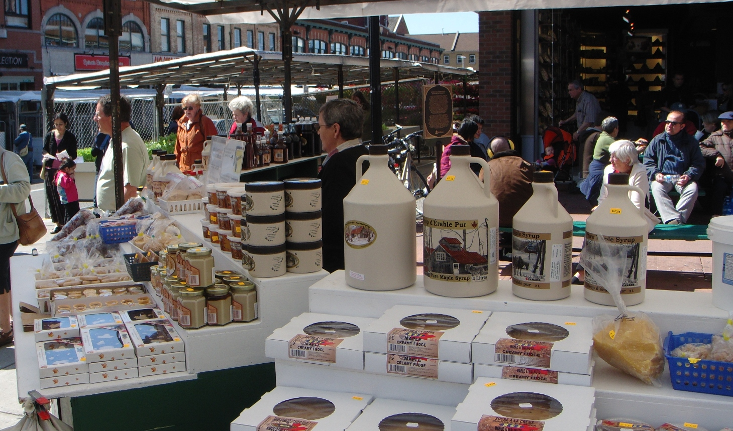 Mapple syrup products, Ottawa Market, Canada